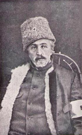 S. Ansky as Red Cross Volunteer